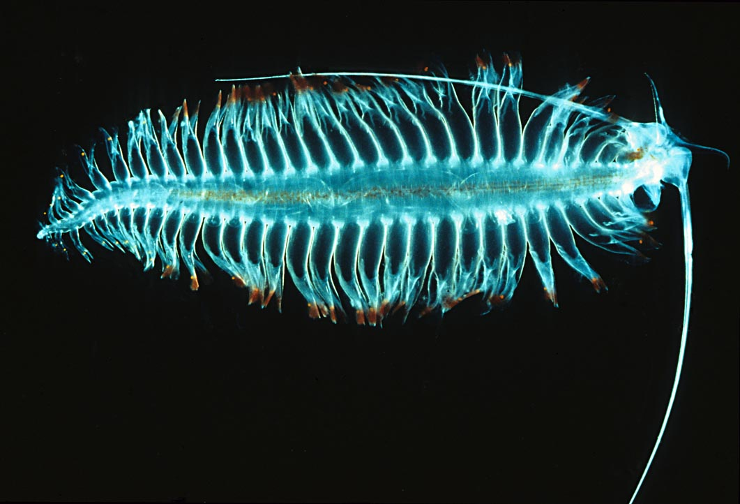 Planctonic polychaete worm from genus Tomopteris.